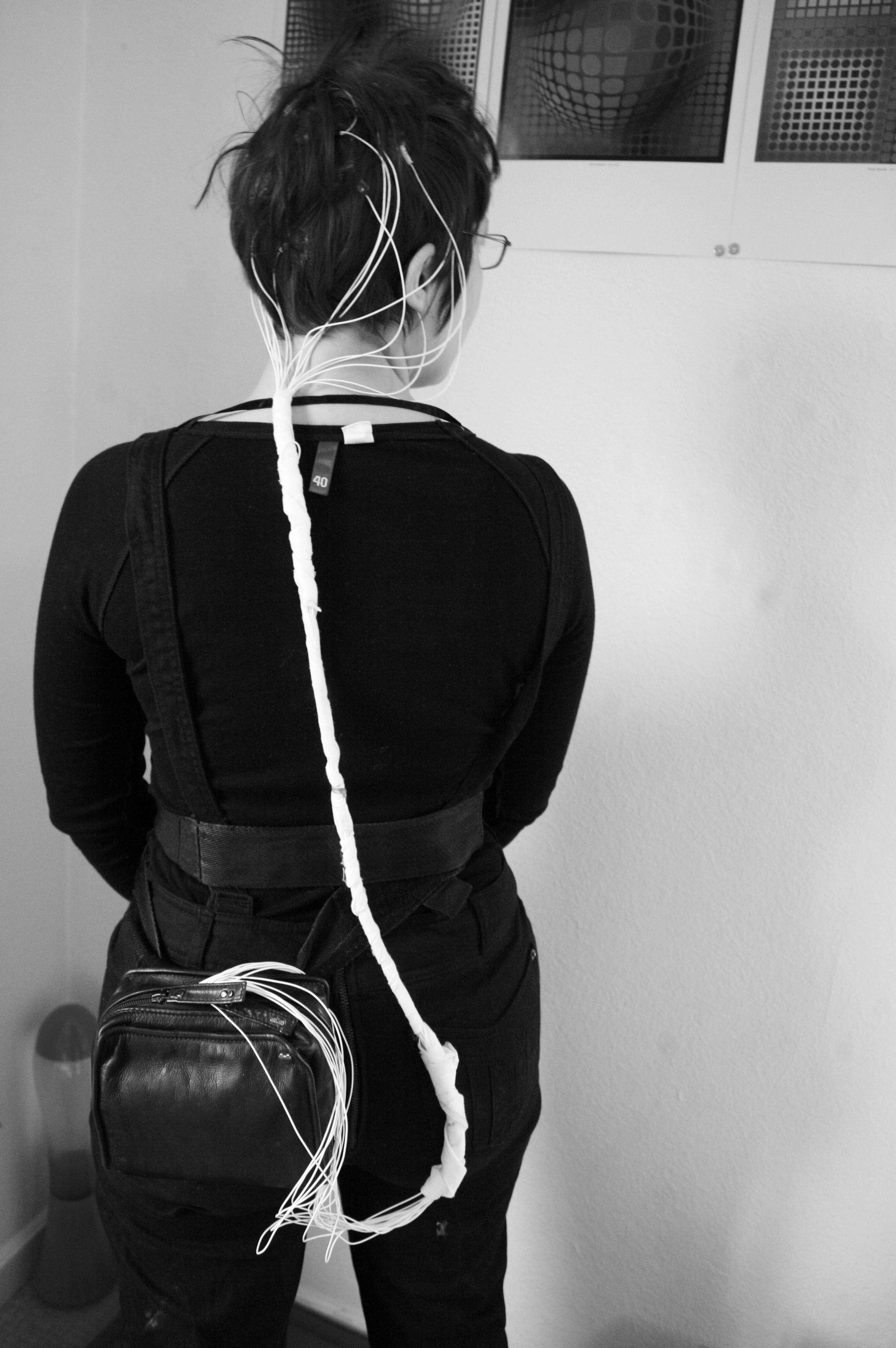 Girl wearing electrodes for electroencephalography